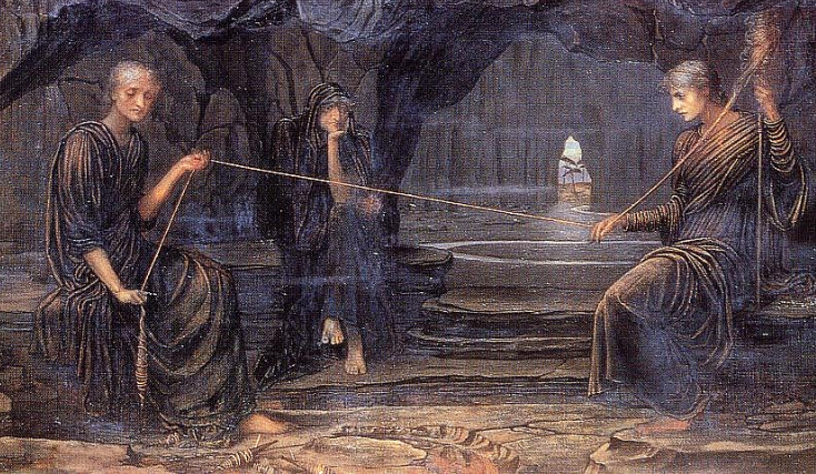 John Strudwick, A Golden Thread, 1885 (oil on canvas).